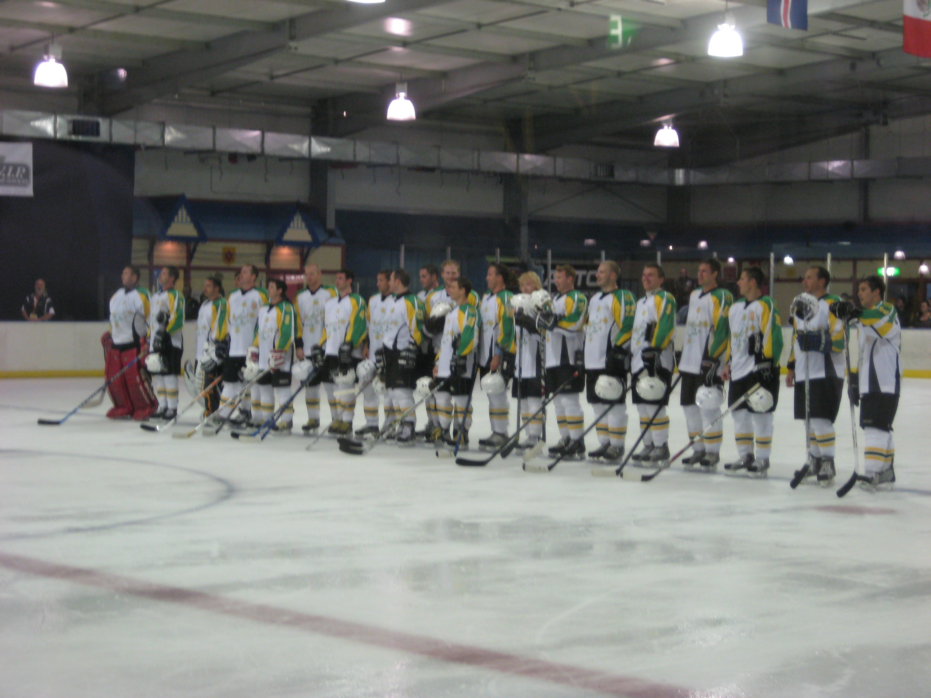 Picture of the Australian ice hockey team after a game versus Spain at the 2008 IIHF World Championship Division II, Group B